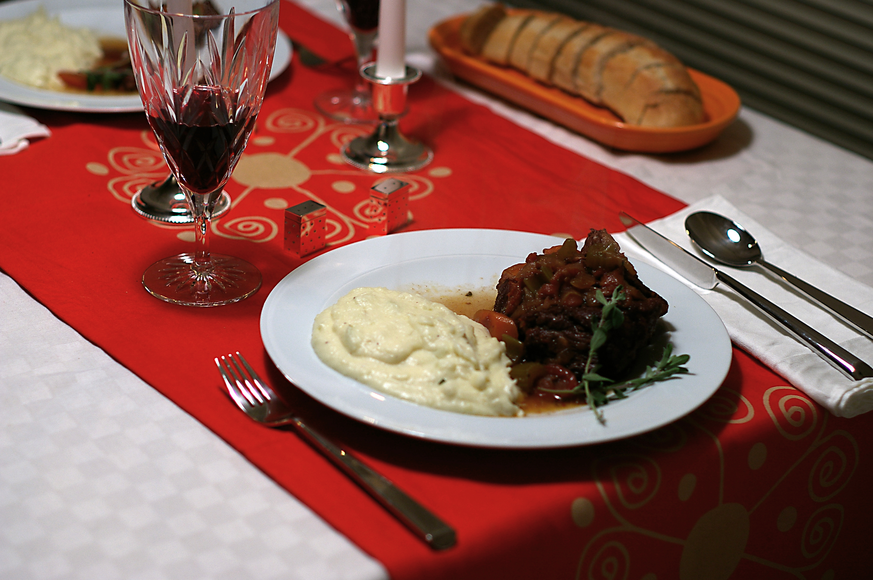 The wife made another perfect potroast, with roasted fennel mashed potatoes. The meat just barely held together, and the potatoes were the creamiest I'd ever had.